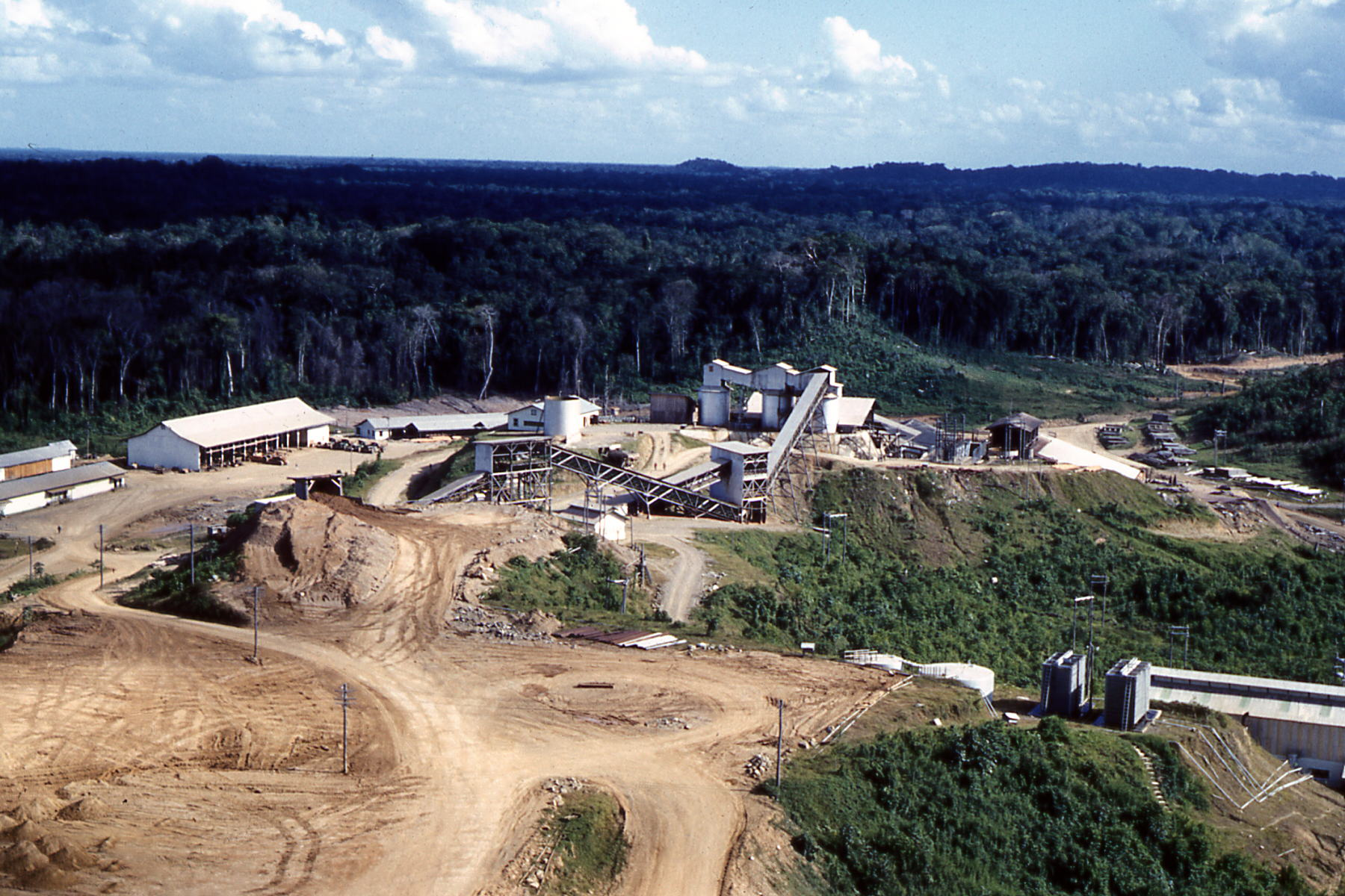 Rosita Mine and town complex in the 1950's